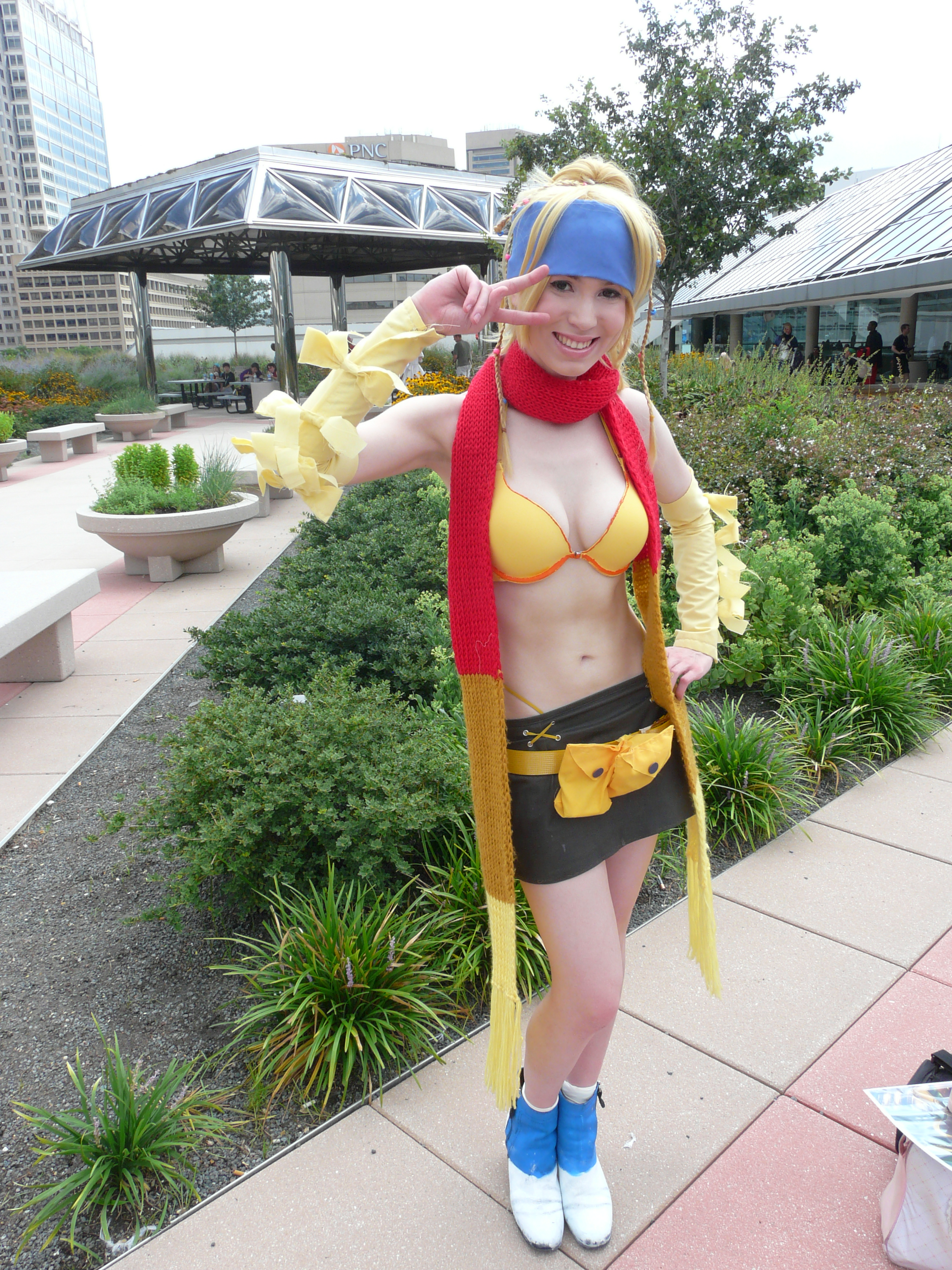 Cosplay of Rikku (from Final Fantasy X-2) at Otakon 2012.